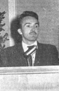 Zvone Dragan (1939), Slovene politician and diplomat